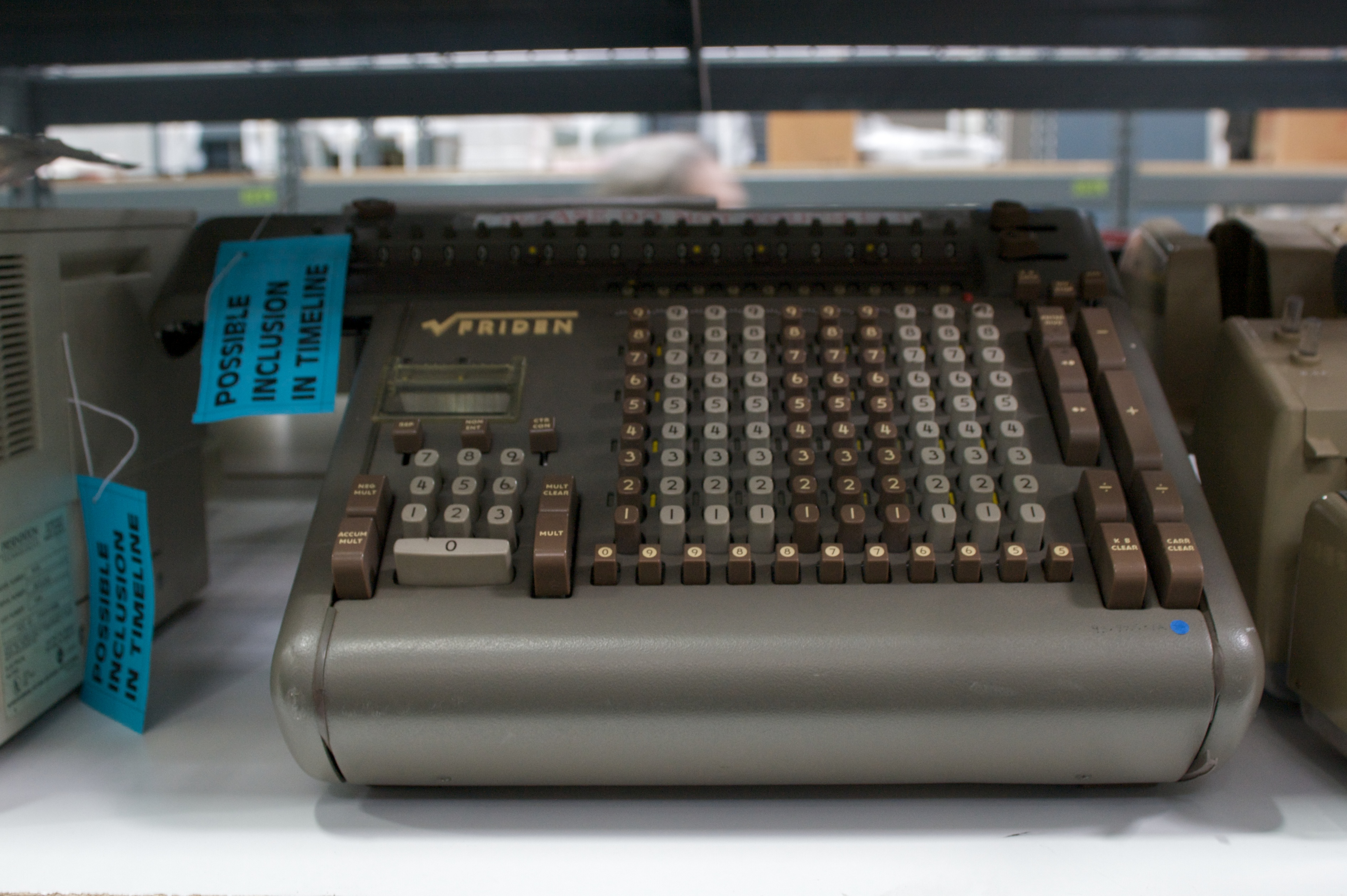 A Friden mechanical calculator at an open house at the Computer History Museum's new warehouse.